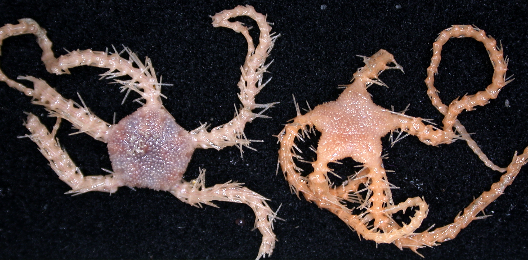 In 2008, researchers from CSIRO's Wealth from Oceans Flagship team discovered hundreds of new marine species and dozens of undersea mountains, in a project to monitor the Commonwealth Marine Reserve Network off southern Tasmania. The remarkable findings were made during surveys of the Tasman Fracture and Huon Commonwealth Marine Reserves, about 100 nautical miles off the coast of southern Tasmania. In total, 274 species new to science were brought to the surface and analysed, along with 86 species previously unknown in Australian waters and 242 previously studied species. The sophisticated sonar equipment onboard also discovered 80 previously unknown seamounts, raising the total in the region to at least 144, which is easily the highest concentration in Australian waters. Scientists also discovered 145 new undersea canyons, raising the regional total to at least 276.